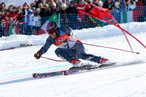 Bode Miller skis at the 2006 Olympics; taken off the edge of the track in the Giant Slalom